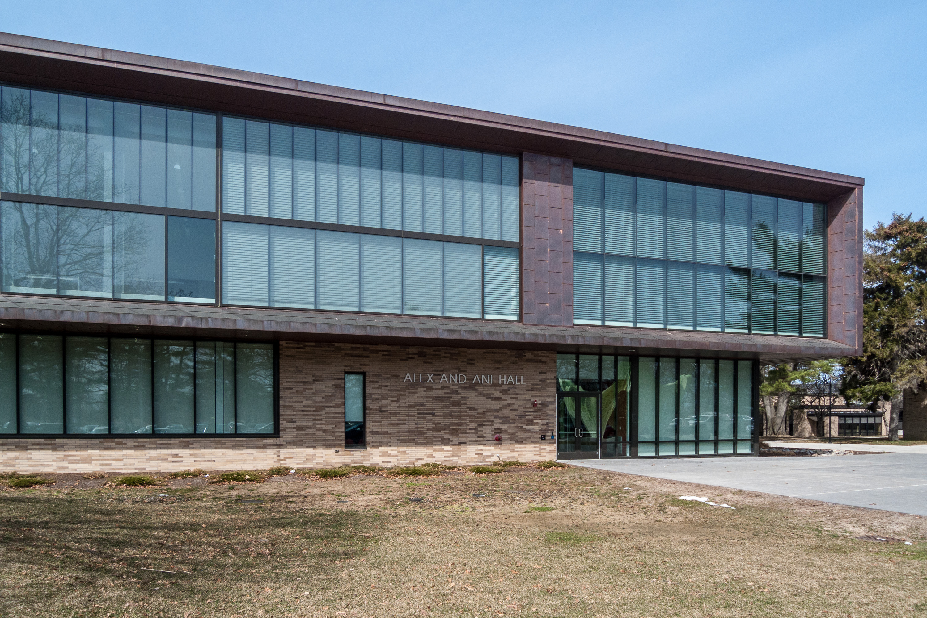 Rhode Island College, Providence RI